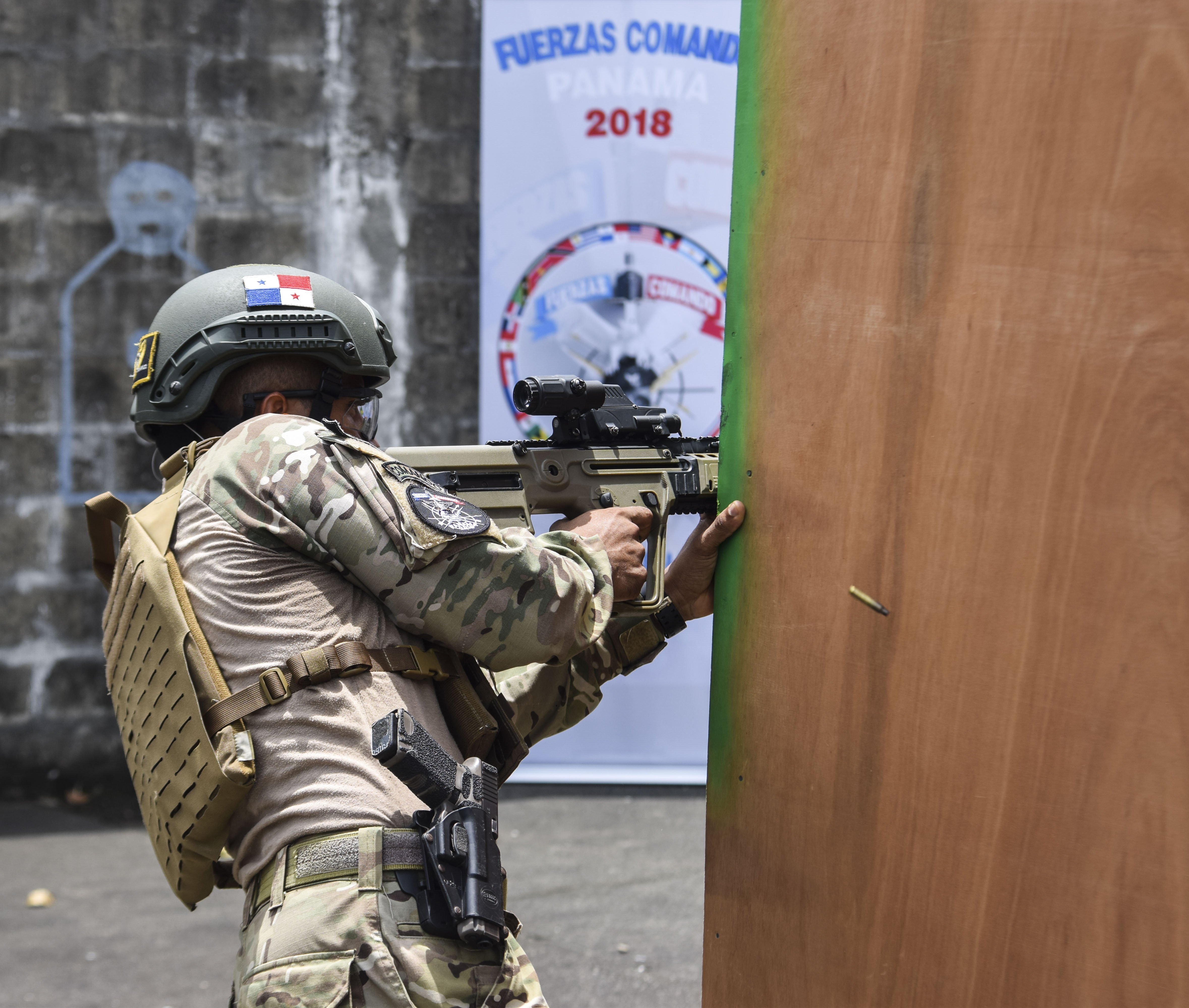 A Panamanian comando shoots targets as part of Fuerzas Comando, July 18, 2018 at the Instituto Superior Policial, Panama. Partner nations participating in Fuerzas Comando refine their tactical and technical skills during competition. By increasing their special operations capabilities, countries become more capable of confronting common threats. (U.S. Army Photo by Staff Sgt. Brian Ragin/Released)